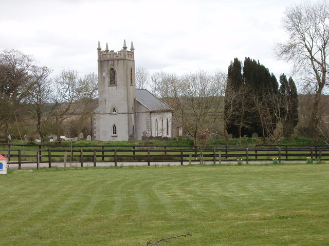 Killurin Church, Wexford Church of Ireland parish of Wexford Union. The church was built in 1785 on the site of an earlier church. See church web page which has a list of baptisms, marriages and burials.